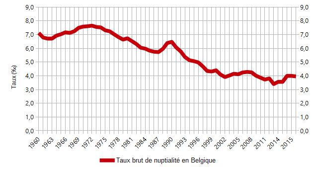 Marriage rate in Belgium 1960-20016